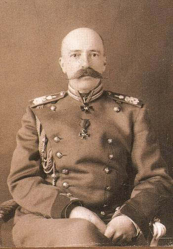 George Romanov